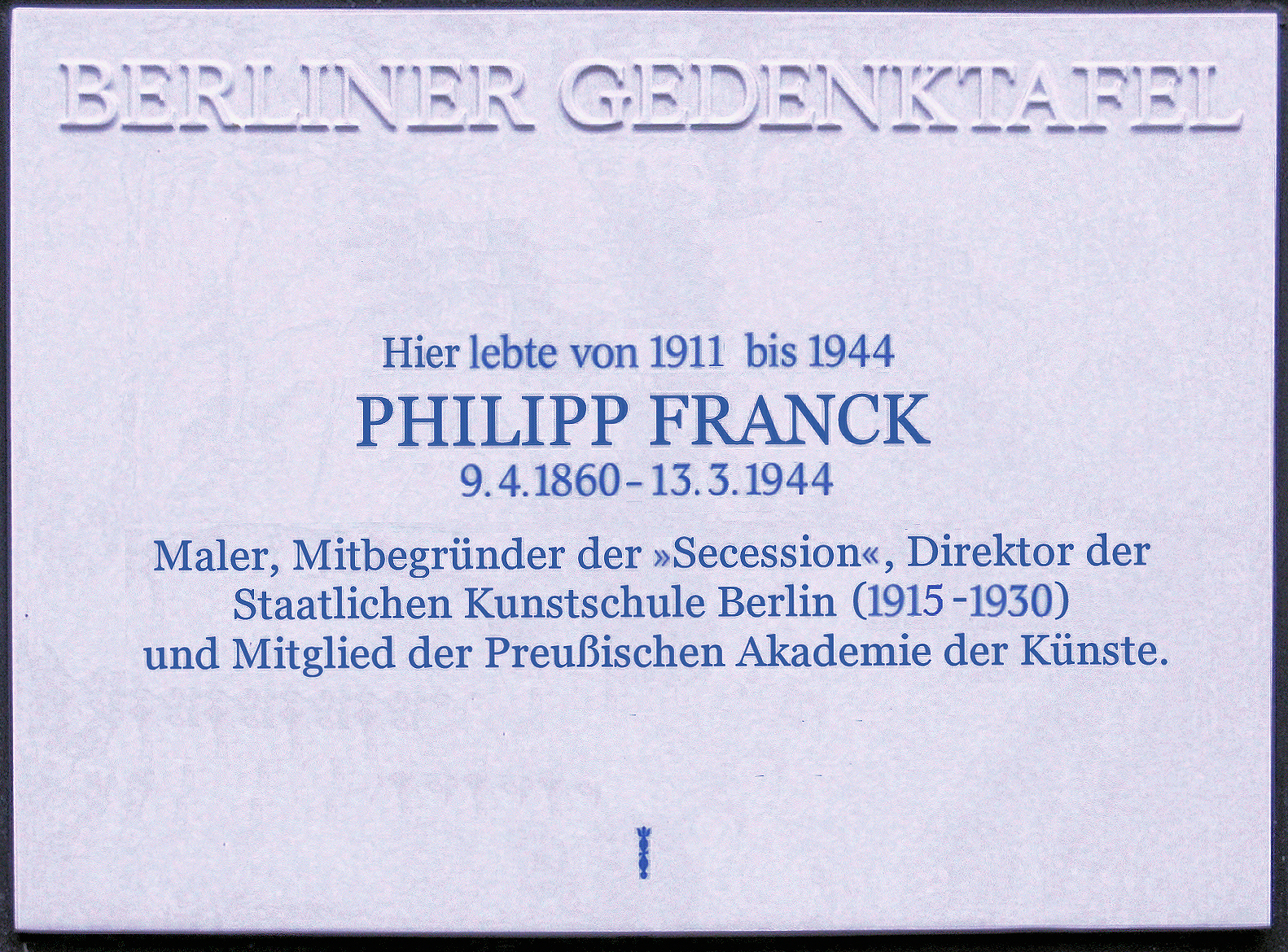 Berlin memorial plaque, Philipp Franck, Hohenzollernstraße 7, Berlin-Wannsee, Germany Koordinate:52°24′58″N 13°9′7″E / 52.41611°N 13.15194°E